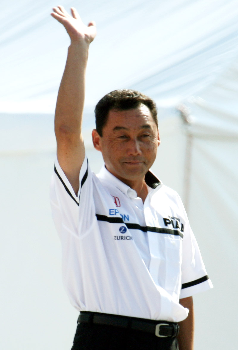 Motorsport Japan 2008: Satoru Nakajima as the chairman of Formula Nippon.